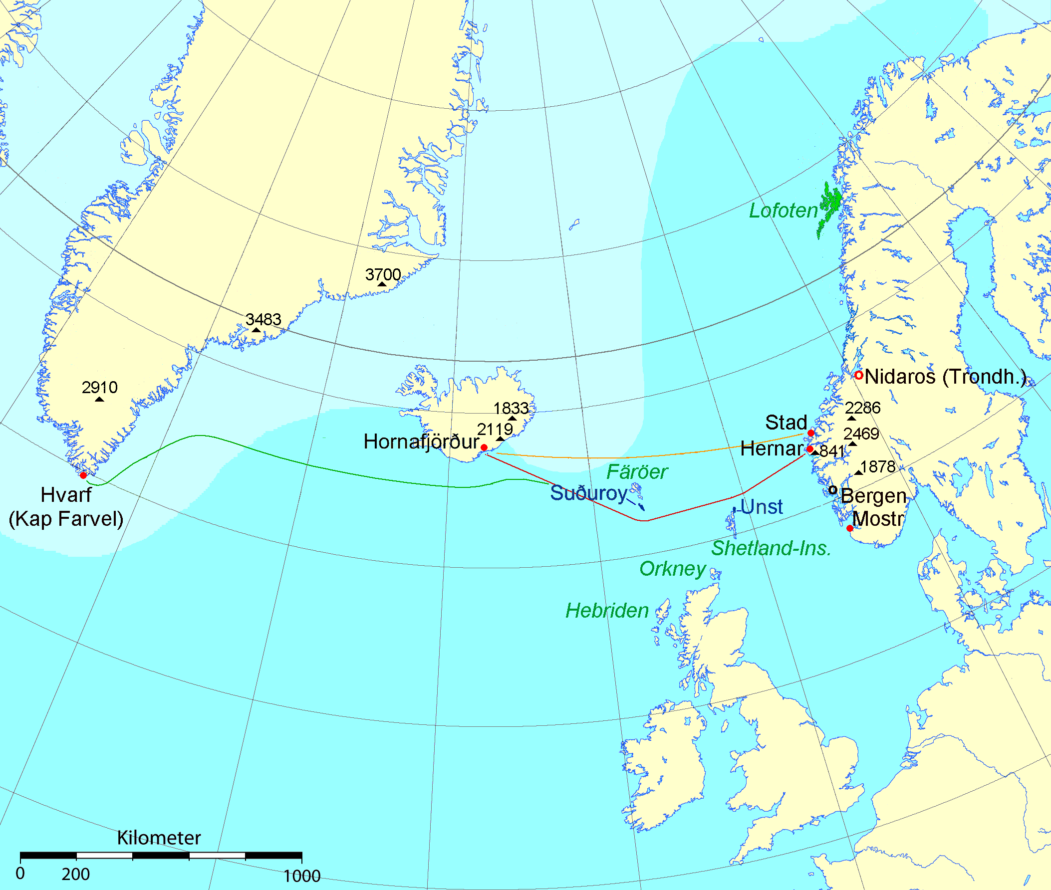 Red and green = recorded routes of the Viking sailors between Norway and Iceland and Greenland. Pale blue = zone of drift ice.